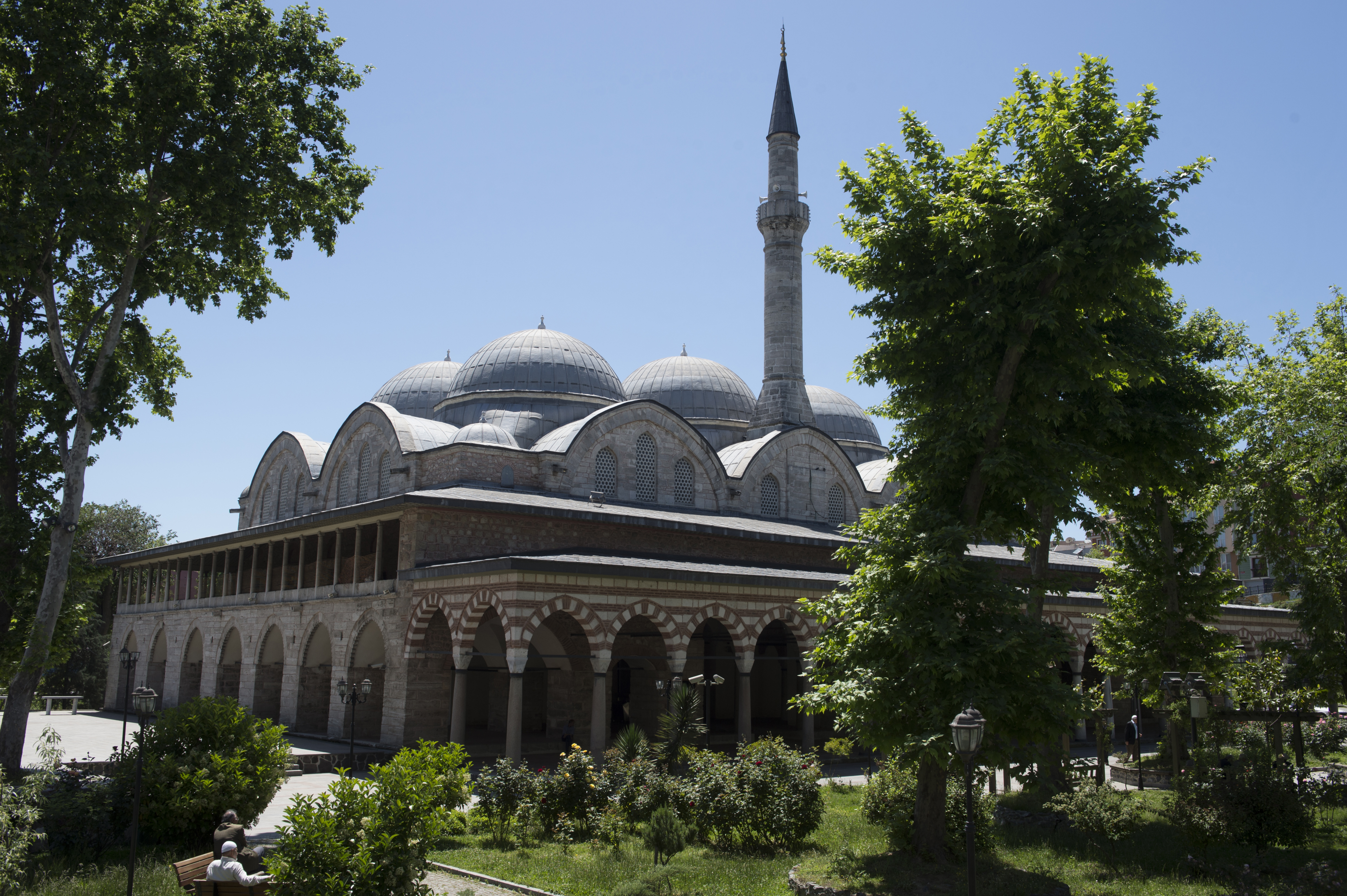 From this side one can see there are two rows of domes, three in a row.